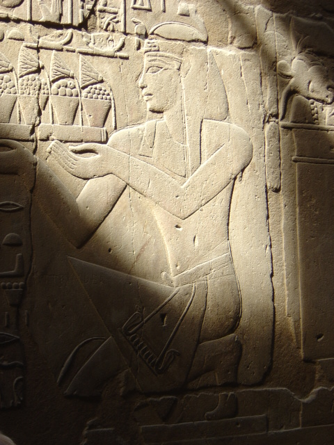 Luxor bas-relief